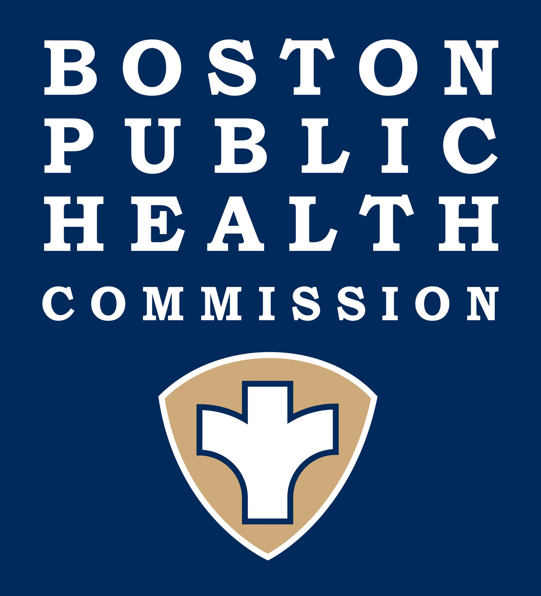 This is the logo for the Boston Public Health Commission.